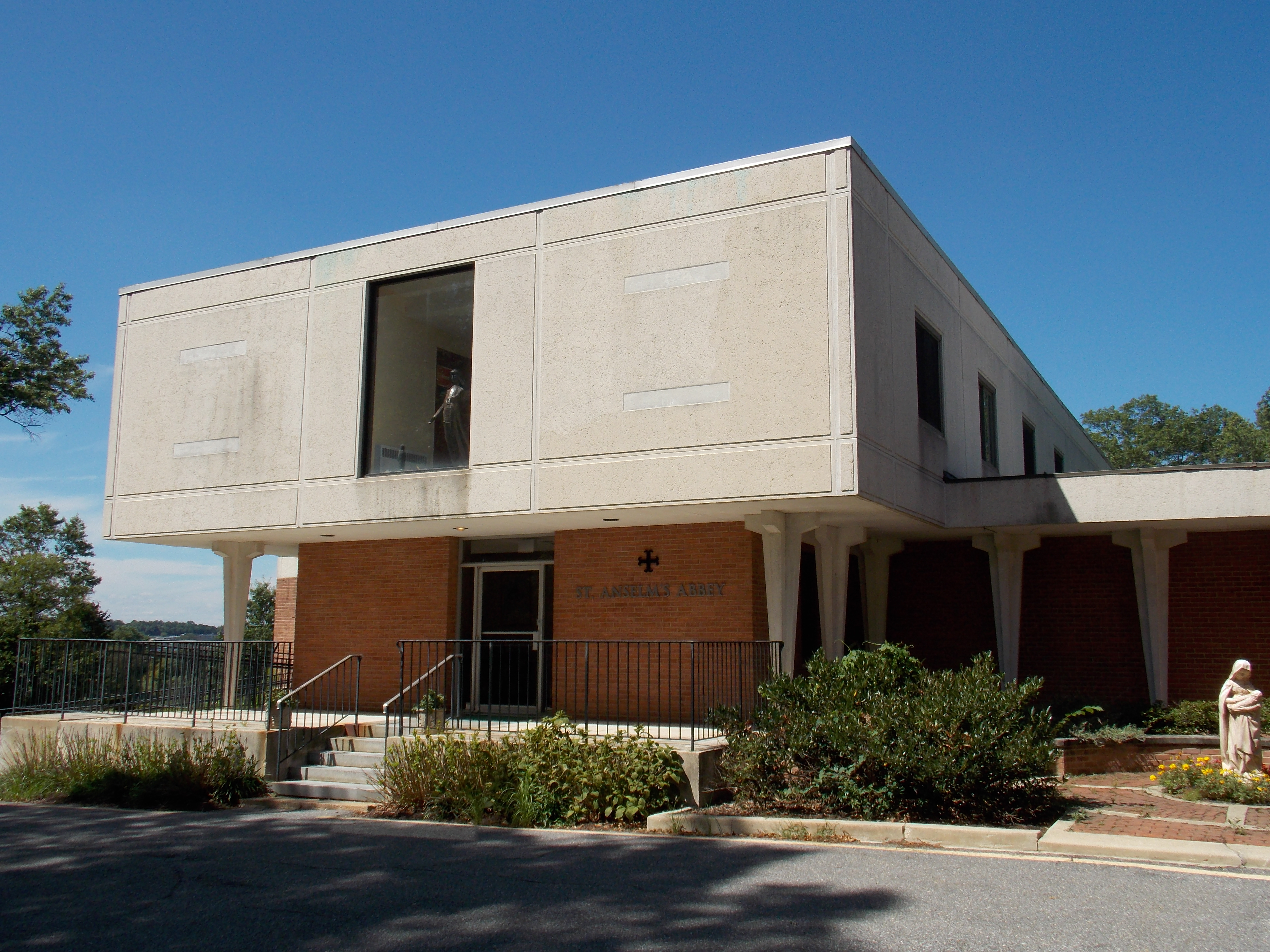 The newer building at St. Anselm's Abbey in Northeast Washington, D.C.